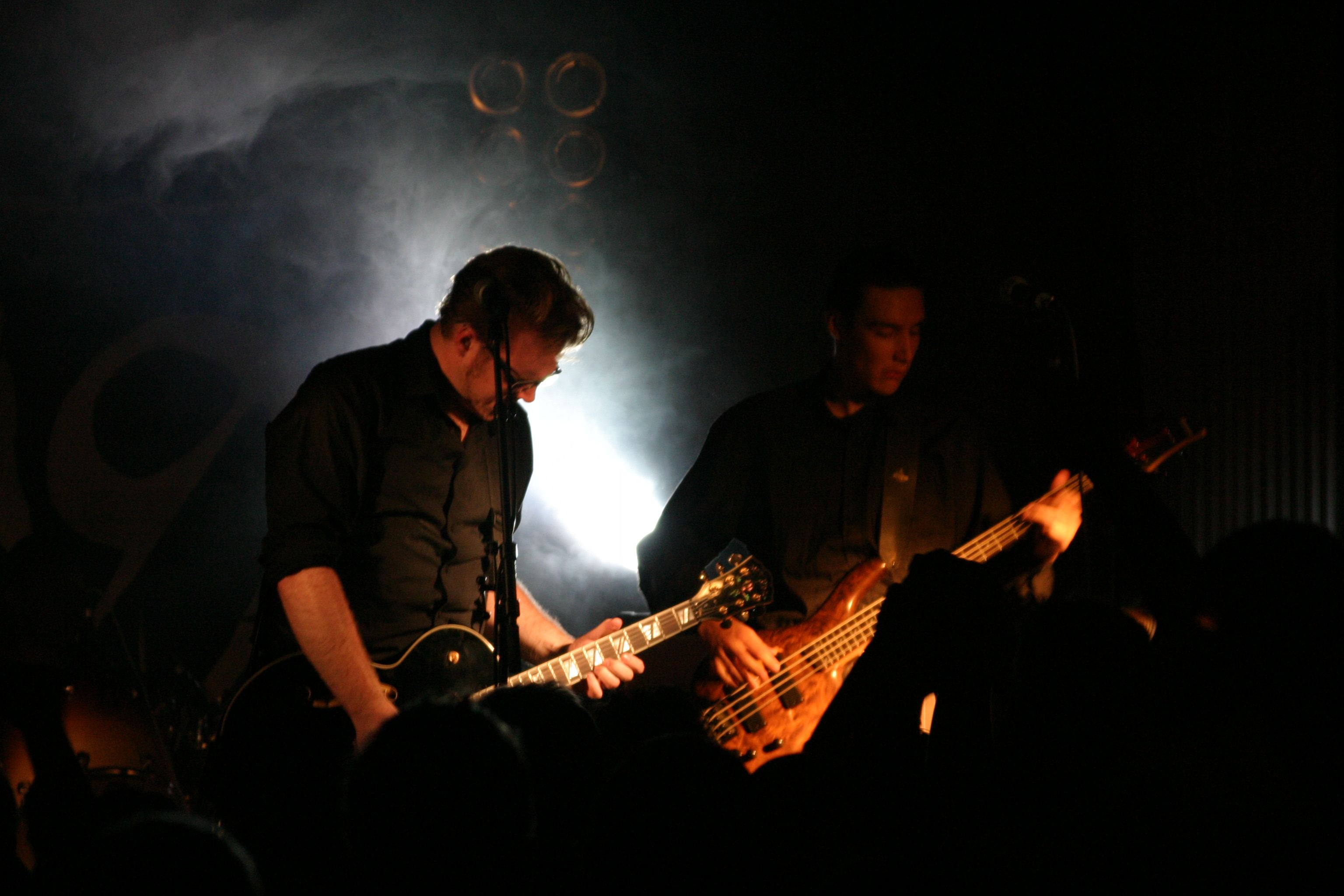 Viikate in Vihreät Niityt music festival in the summer 2005.